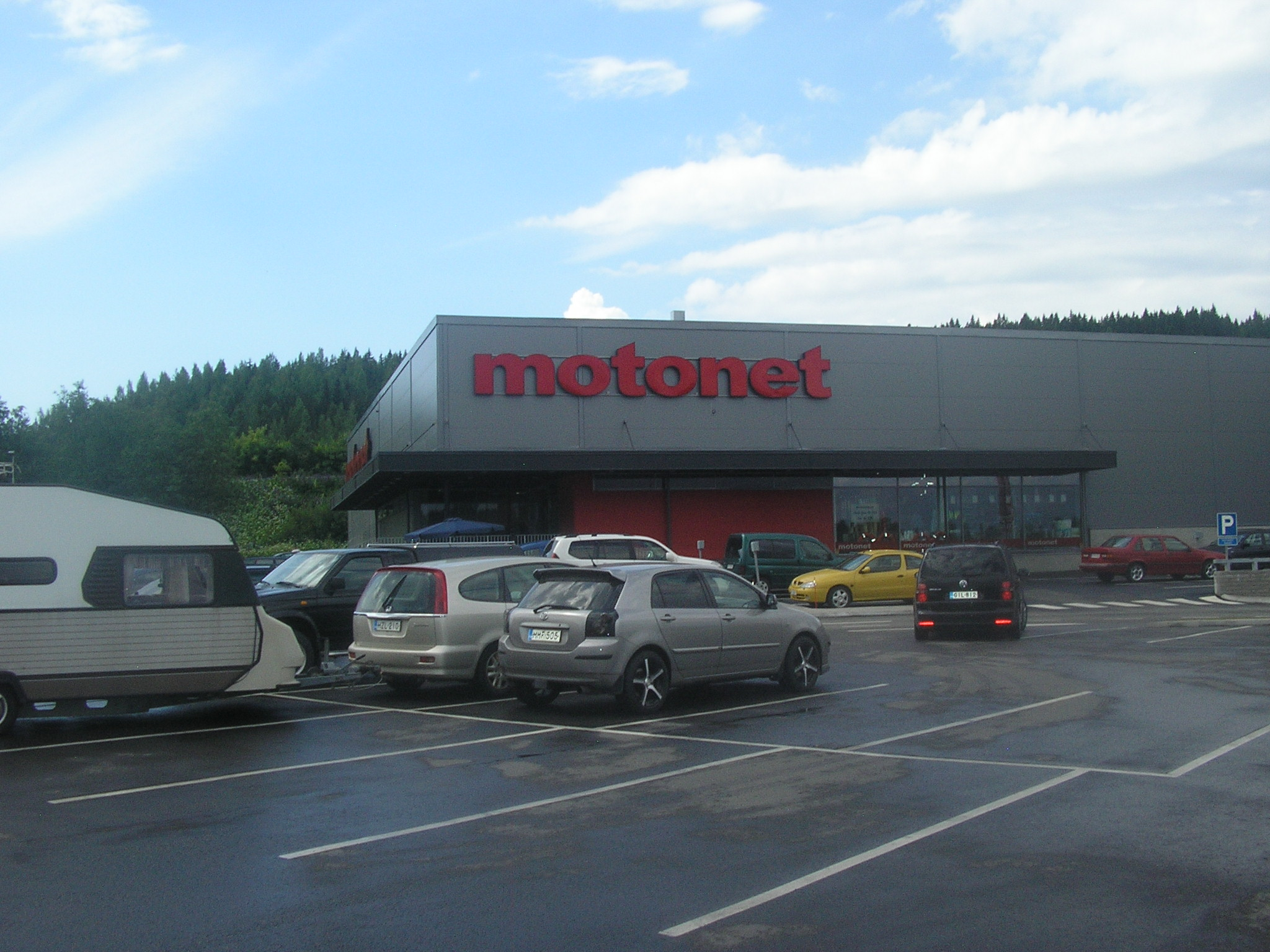 Motonet shop in Keljo, Jyväskylä, Finland